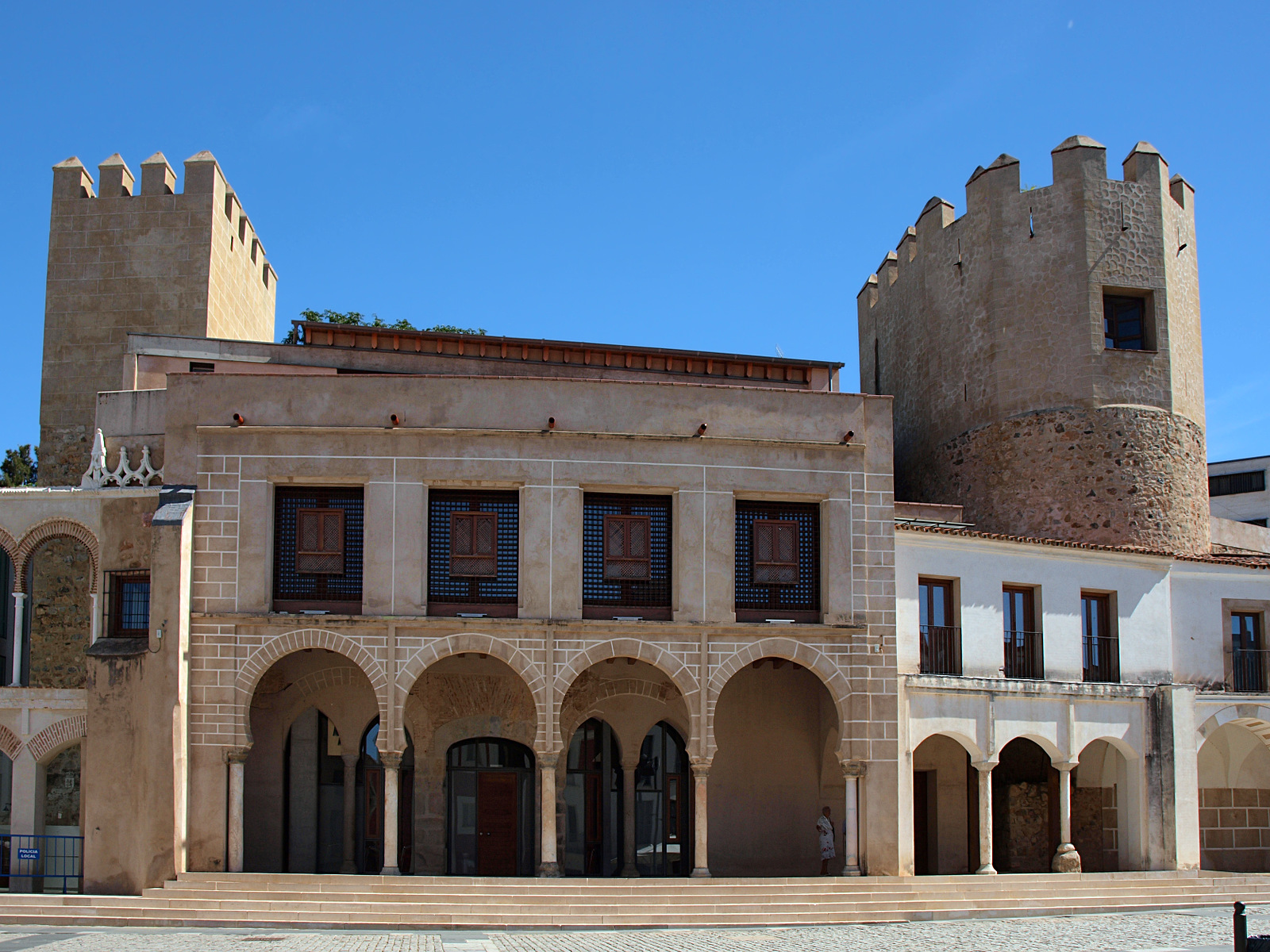 Plaza Alta, Badajoz